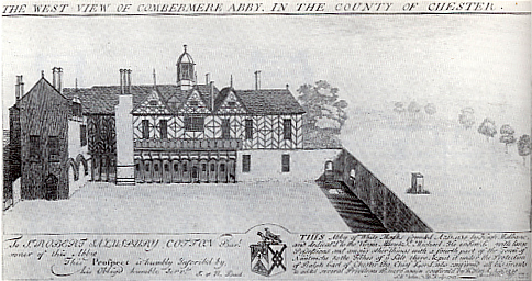 Engraving of Combermere Abbey, Cheshire, by Samuel & Nathaniel Buck (1727)